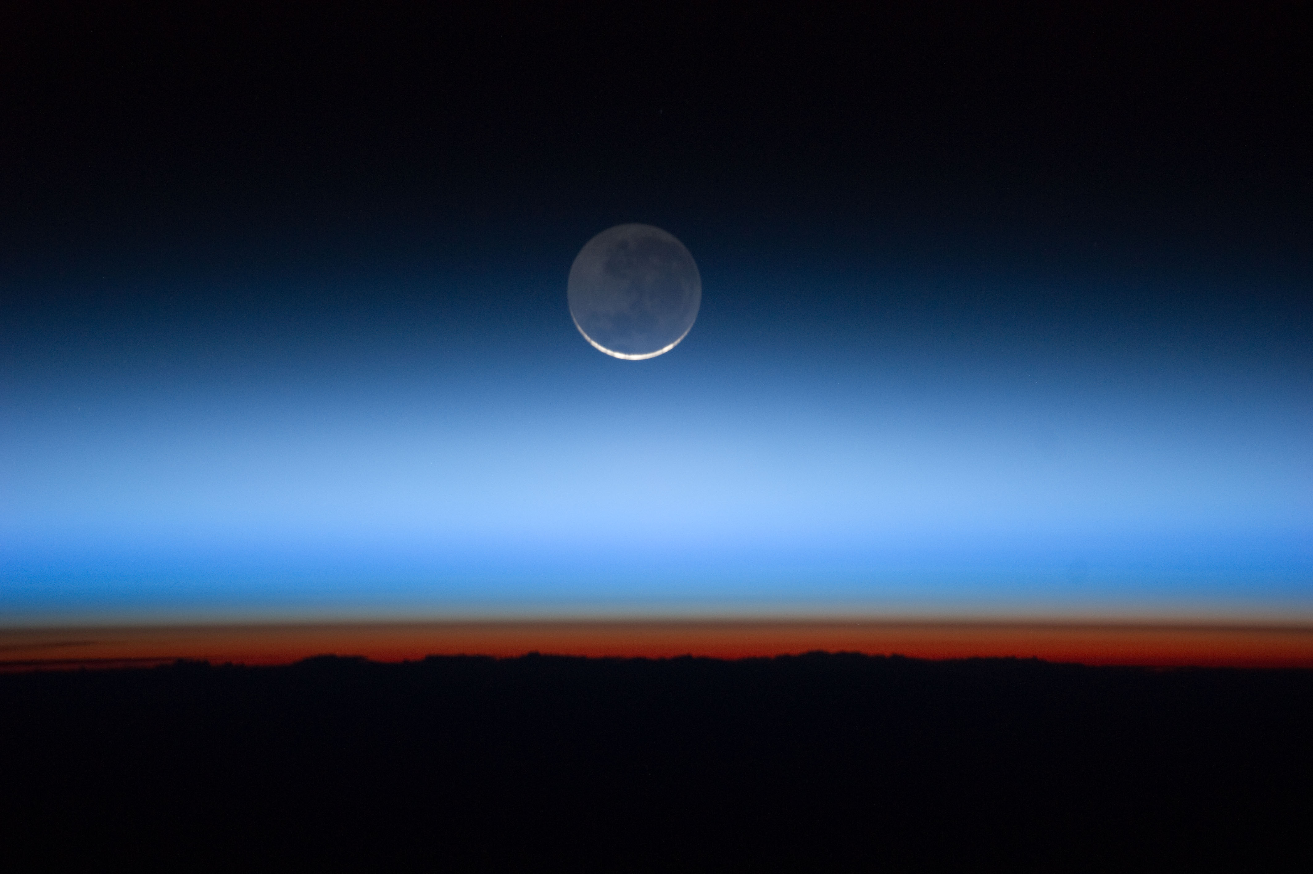 This image shows the moon at centre, with the limb of Earth near the bottom transitioning into the orange-coloured troposphere, the lowest and most dense portion of the Earth's atmosphere. The troposphere ends abruptly at the tropopause, which appears in the image as the sharp boundary between the orange- and blue- coloured atmosphere. The silvery-blue noctilucent clouds extend far above the Earth's troposphere.